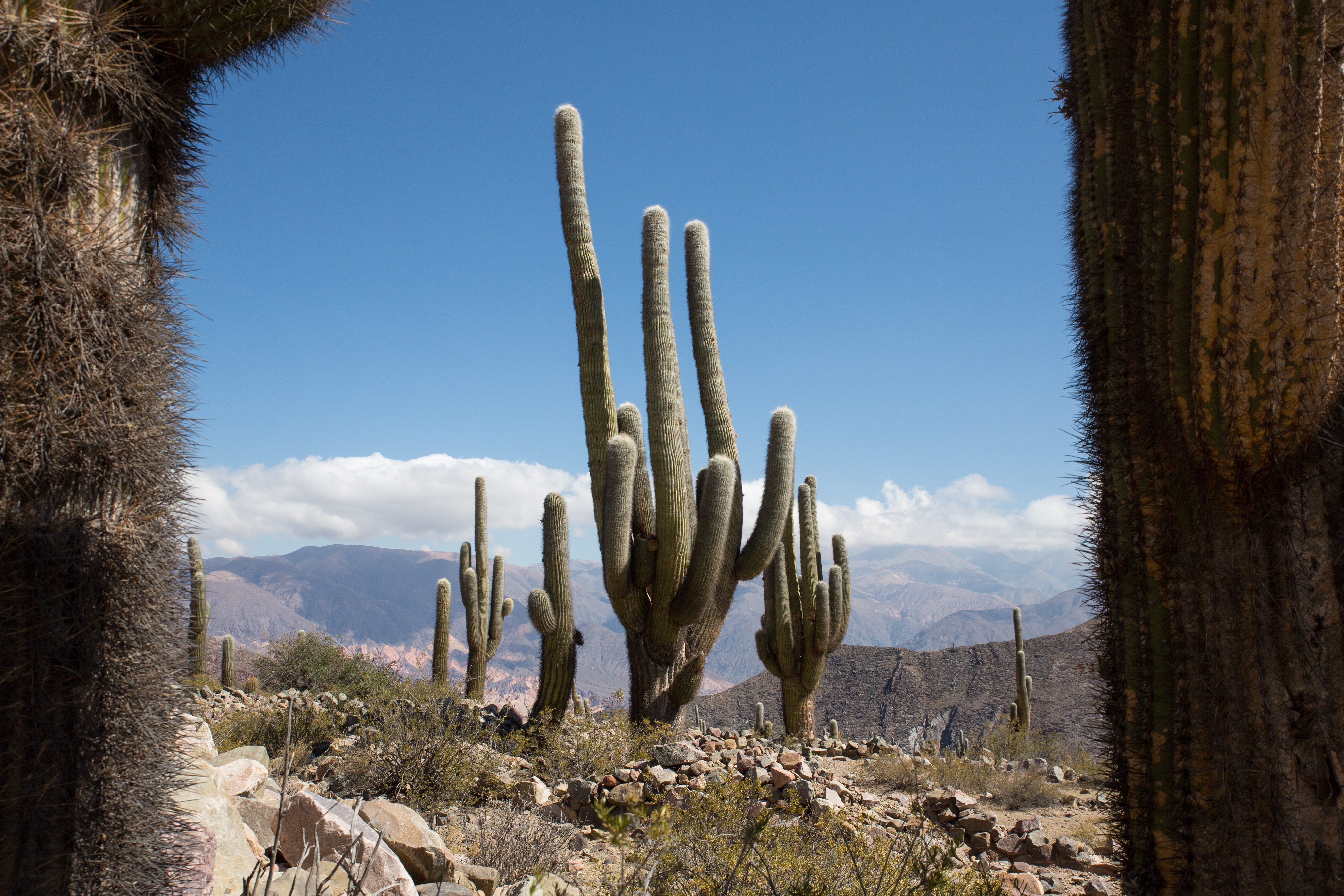 Echinopsis atacamensis grows to a large size and in large numbers near Tilcara, Argentina